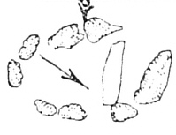 Outline of the dolmen Schadewohl 3, Saxony-Anhalt